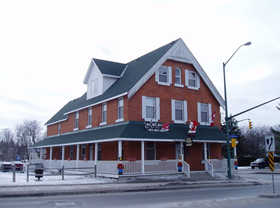 The old train station in Stittsville, taken by SimonP